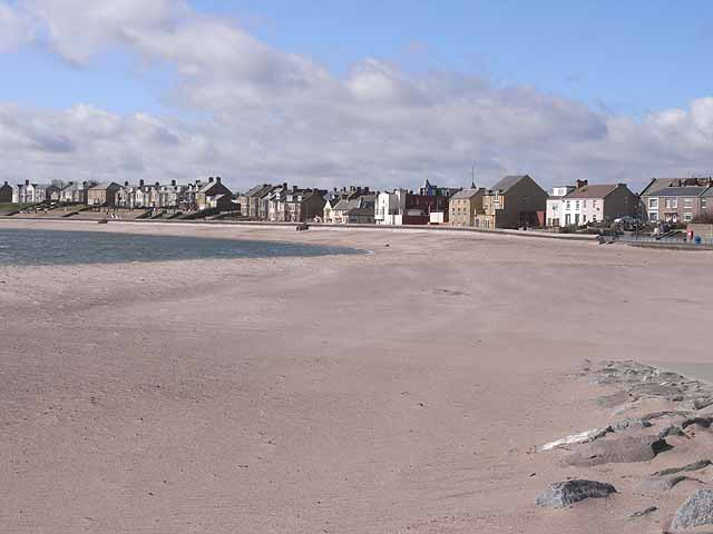 Newbiggin Bay The broad sweep of Newbiggin Bay with its extensive sands.